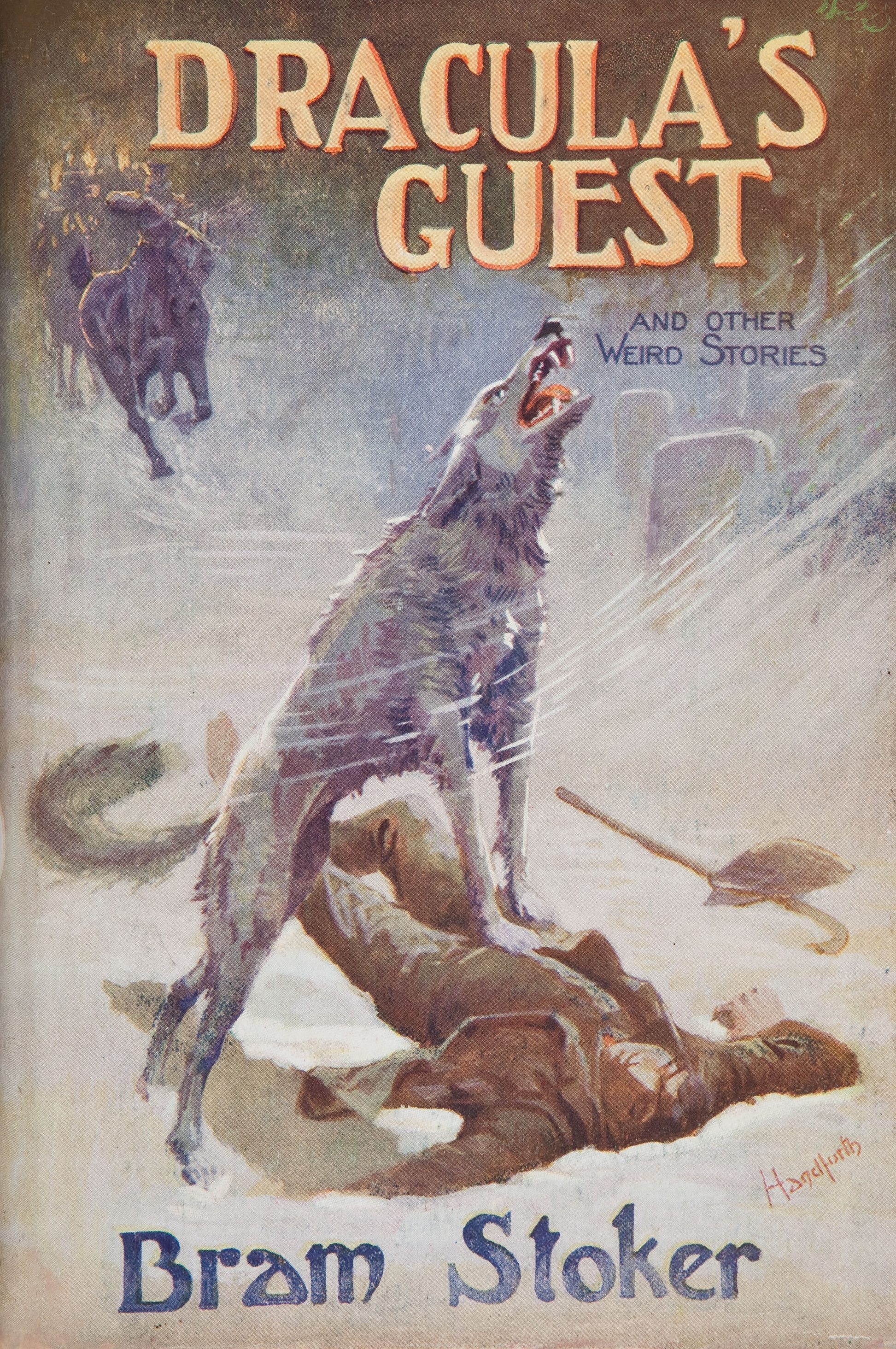 1st edition cover